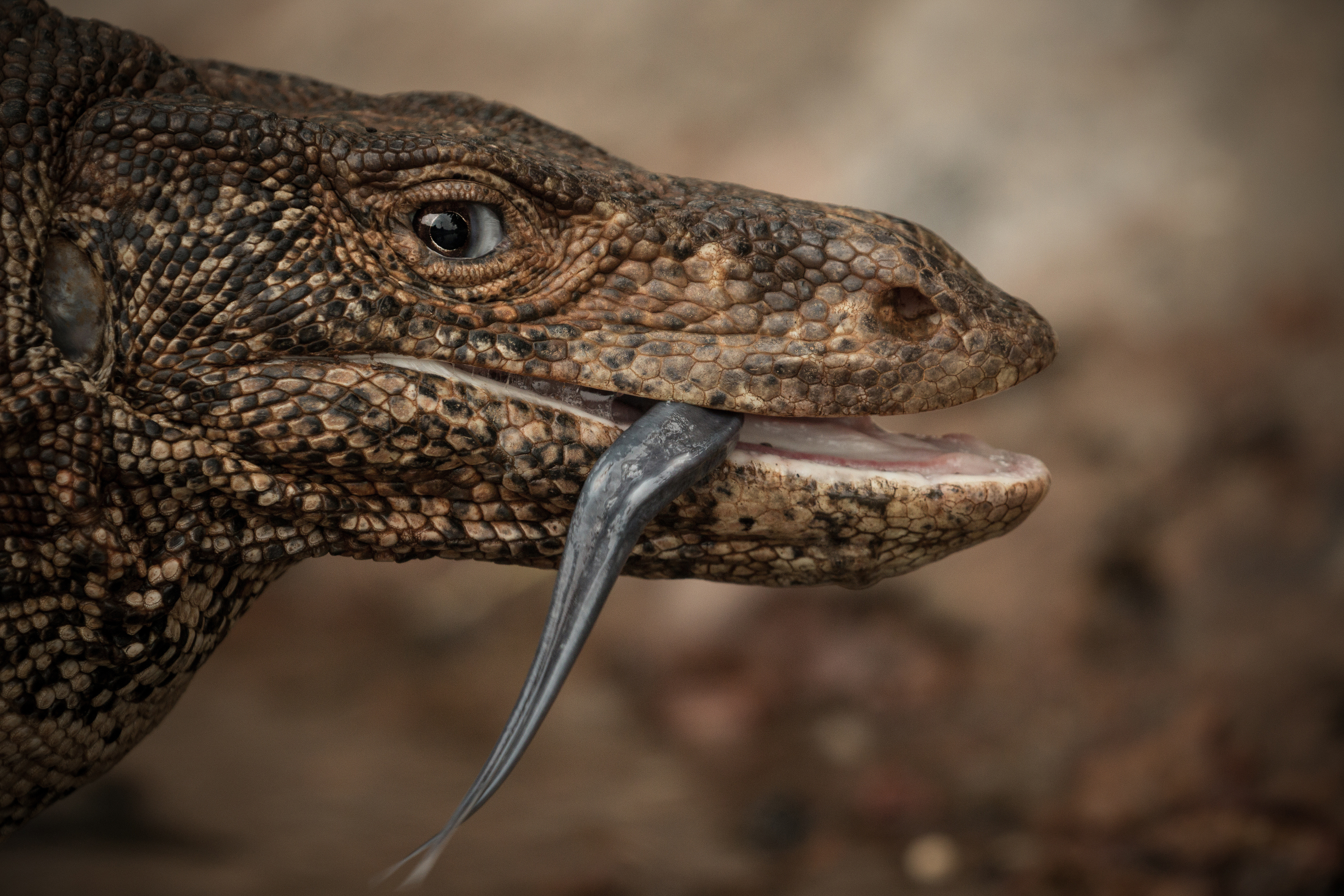 Bengal monitor (Varanus bengalensi) at Anawilundawa Bird Sanctuary - Sri Lanka, The sizable reptile uses its forked tongue to "smell" its surroundings. It will flick its tongue repeatedly in order to track prey and detect other monitor lizards.